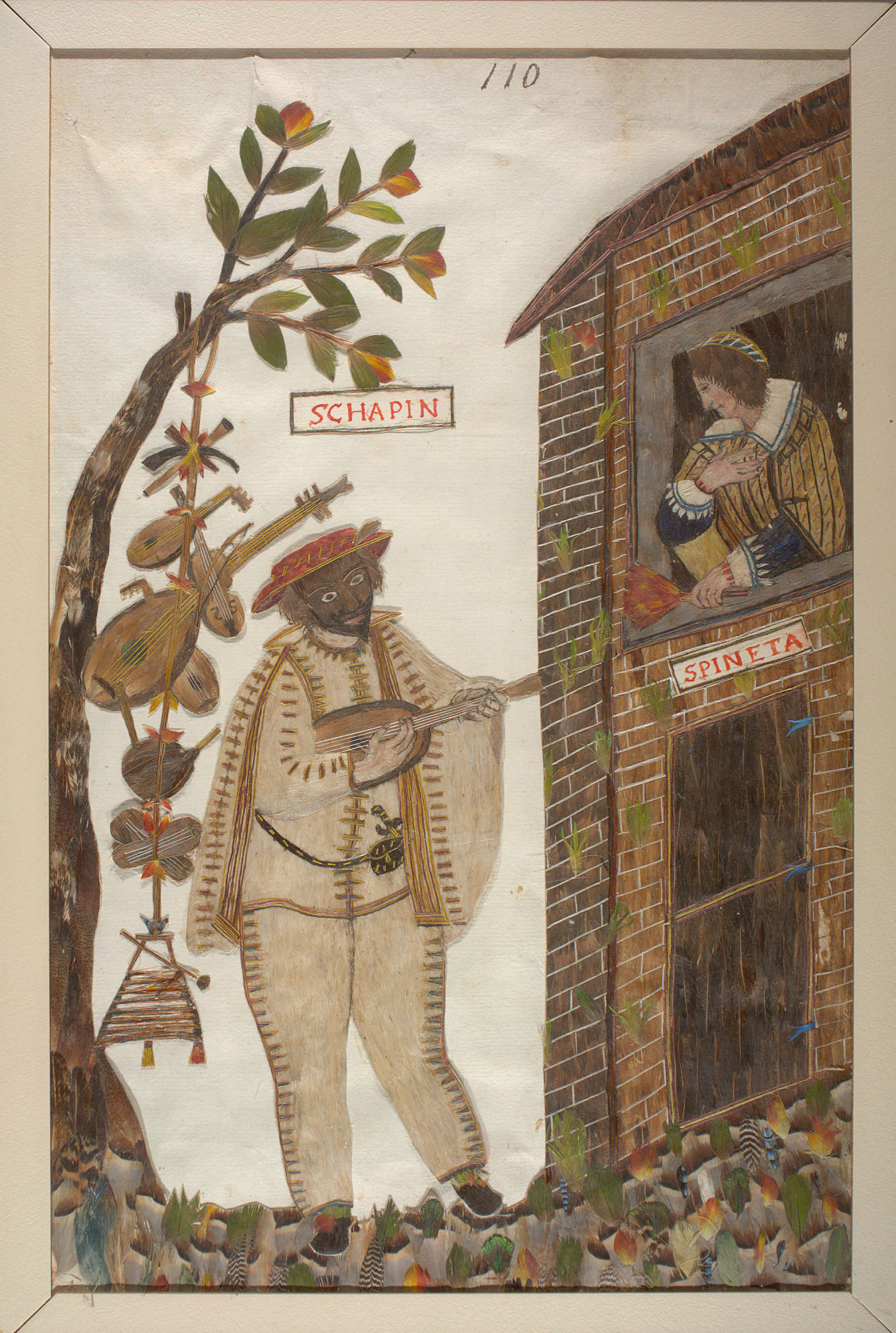 Folio 110 from the McGill Feather Book: Scene from a comedy by Nicolò Barbieri showing Spineta serenaded by the masked Schapin (Scapino). The large number of instruments hanging from the tree suggest the player is the commedia dell'arte actor Francesco Gabrielli with his wife Spinetta.